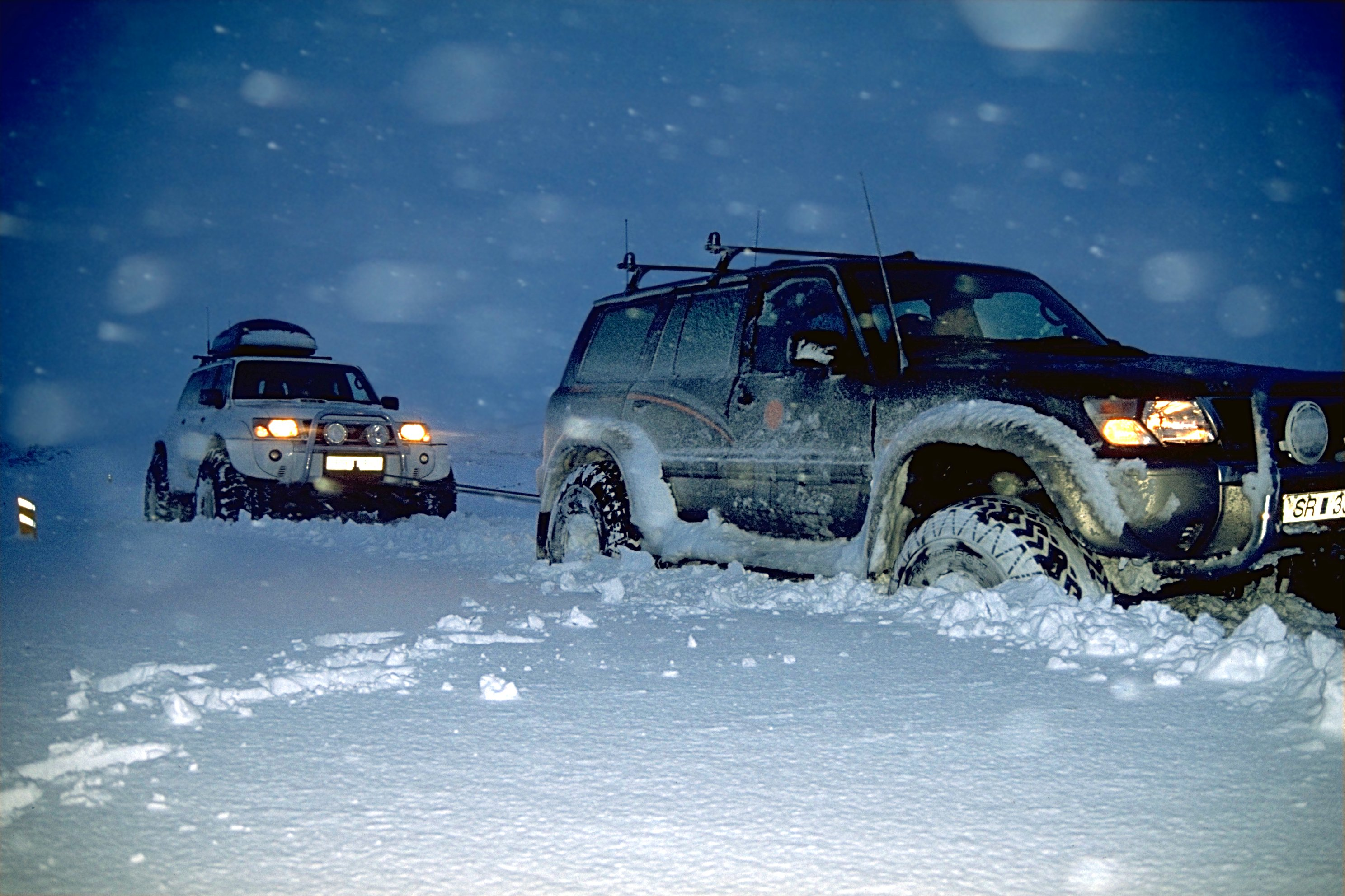 Stuck in snow between Laugarvatn and Þingvellir, Iceland. Photo was taken using the following technique: Film: Fuji Velvia Lens: 4/35-70 Filter: none, flash Body: Minolta Dynax 7 Support: Image with Information in English Bild mit Informationen auf Deutsch